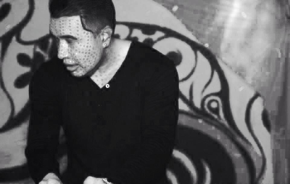 DJ Trevi Peforms at Lexington Bar in Los Angeles